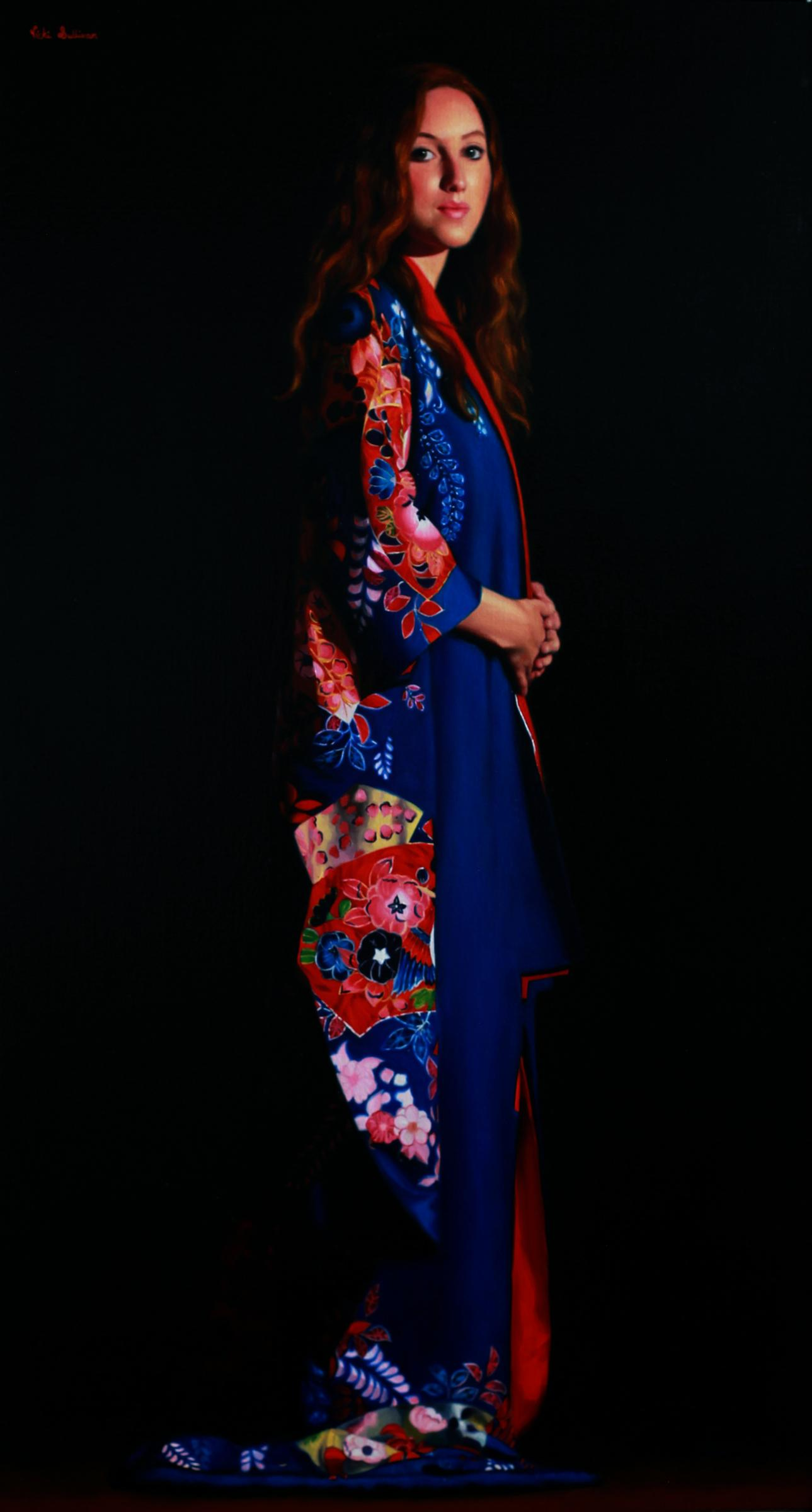 'Into the Night' - Vicki Sullivan, oil on linen, h120xw66cm